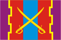 Kizilsky rayon (Chelyabinsk oblast), flag